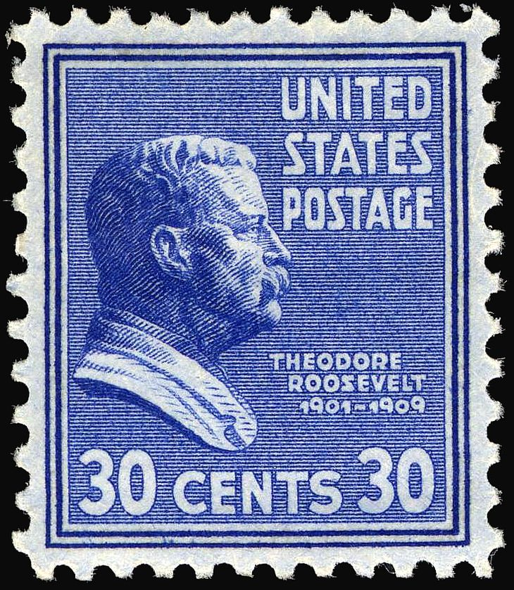 Image of Theodore Roosevelt stamp, 30-cents, 1938 issue